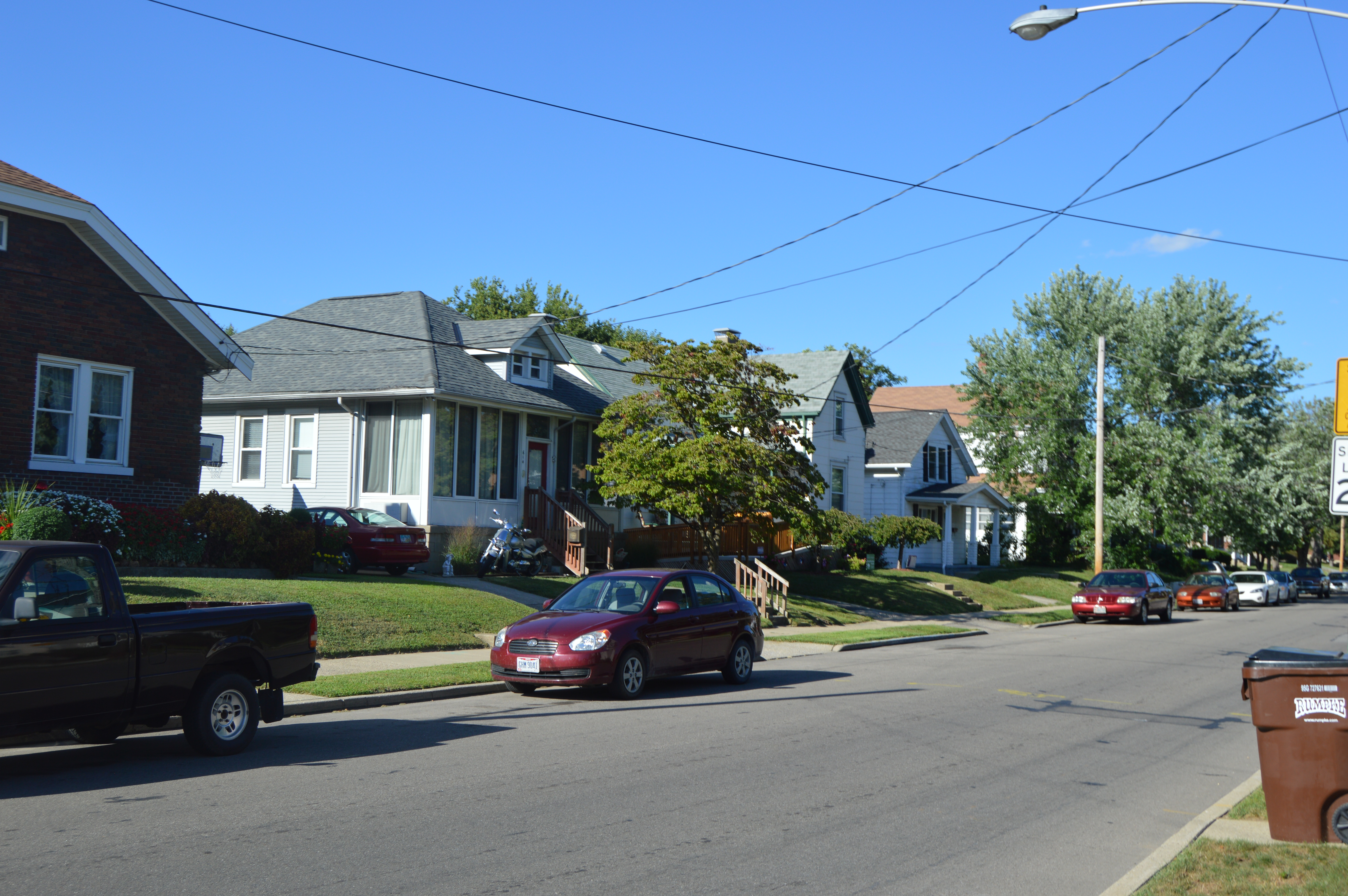 Houses on Elliott Avenue northeast of the Erkenbrecher Avenue intersection in Arlington Heights, Ohio, United States.